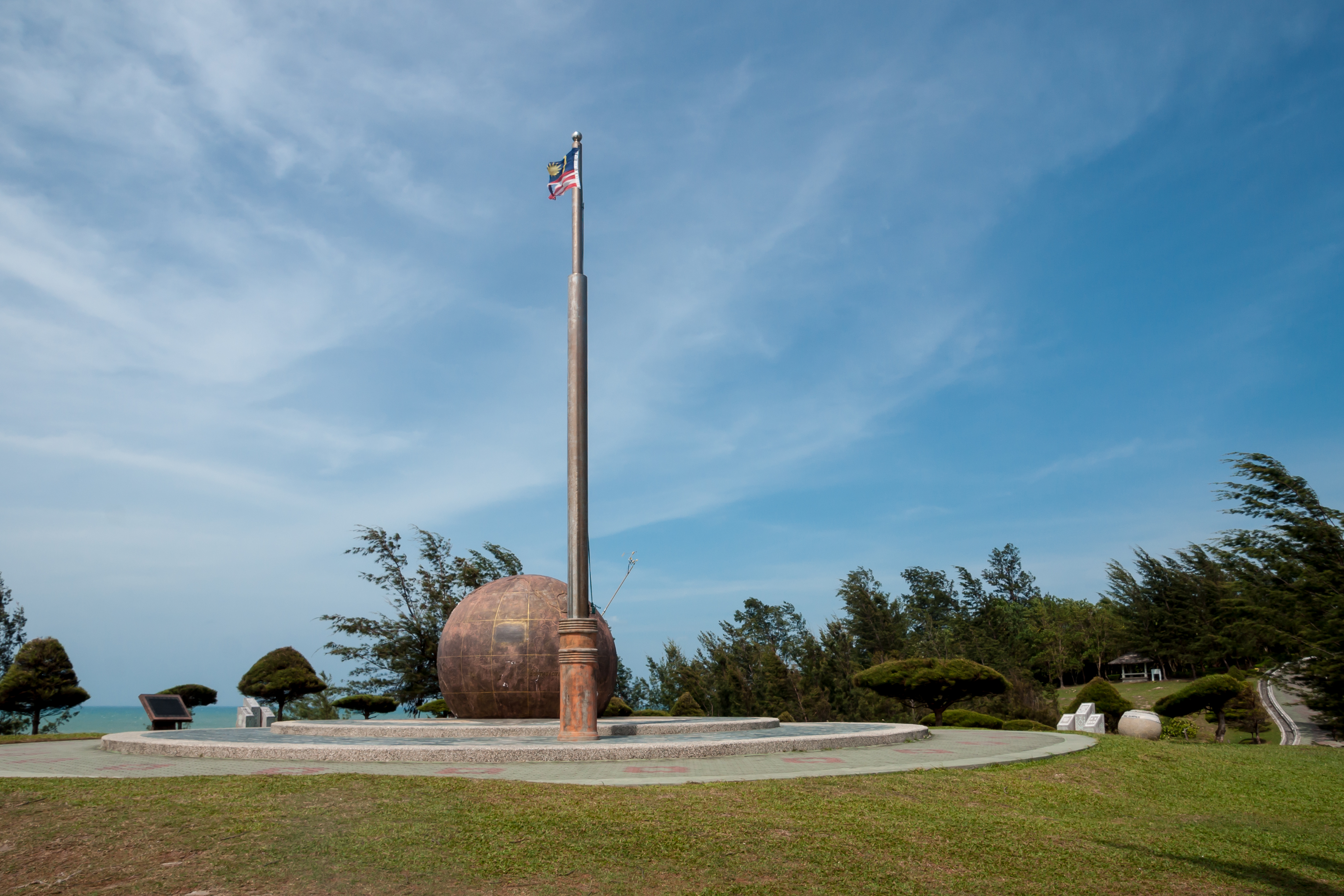 Kudat, Sabah: Tanjung Simpang Mengayau (Tip of Borneo)